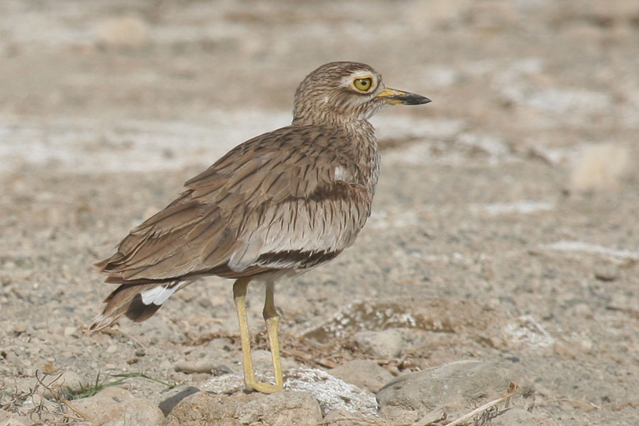 Senegal thick-knee photographed in Abijatta-Shalla national park